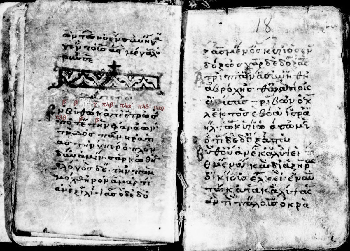 Ms. Gr. 929 of Saint Catherine's Monastery at Mount Sinai (Greek heirmologion palimpsest with Old Byzantine Coislin notation using a former tropologion)